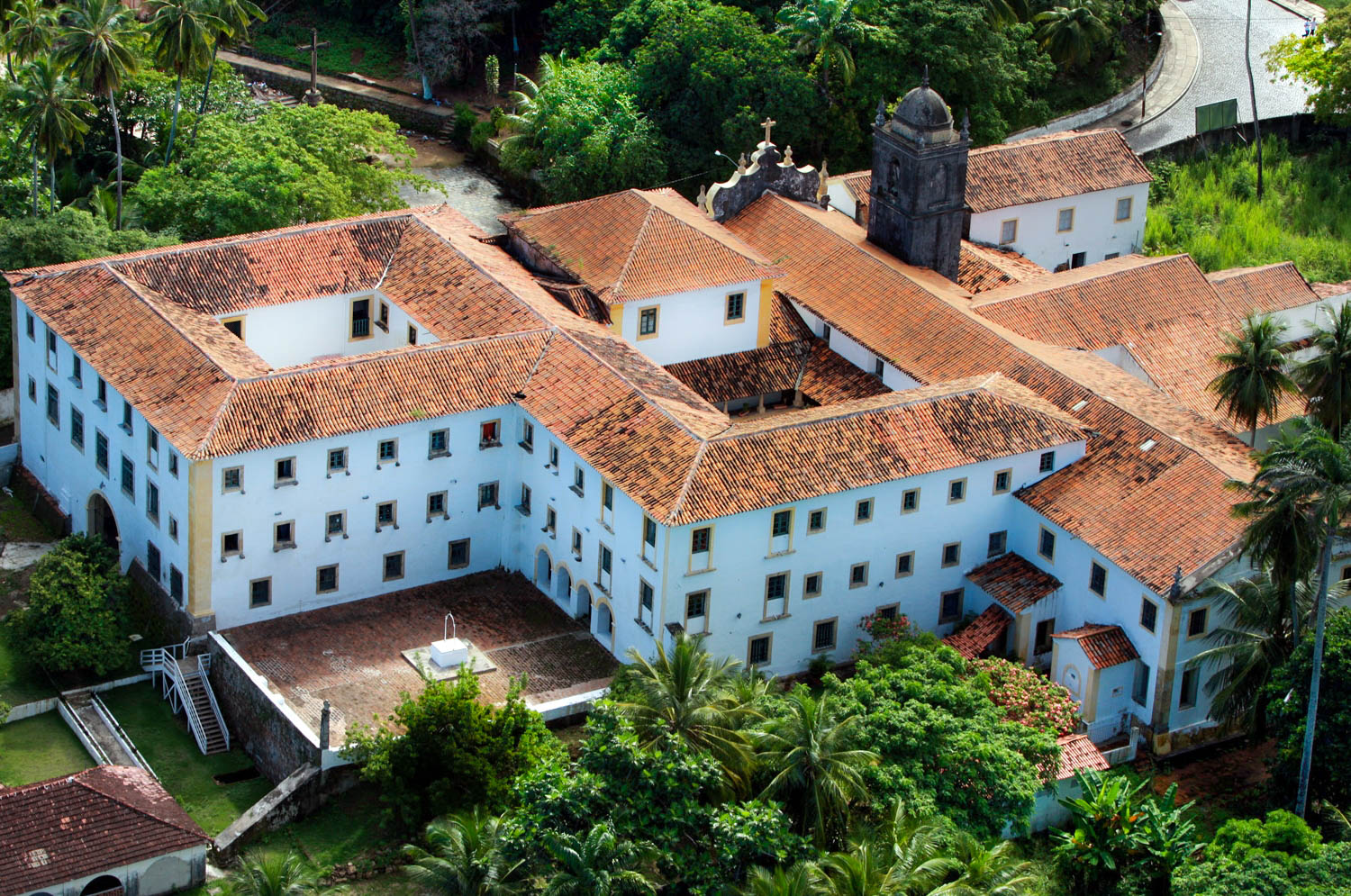 Church of Our Lady of the Snows, Saint Roch Chapel and San Francisco Convent - Olinda, Pernambuco, Brazil San Francisco Convent: Built in the end of the XVI century, it’s the oldest Franciscan Monastery in Brazil.